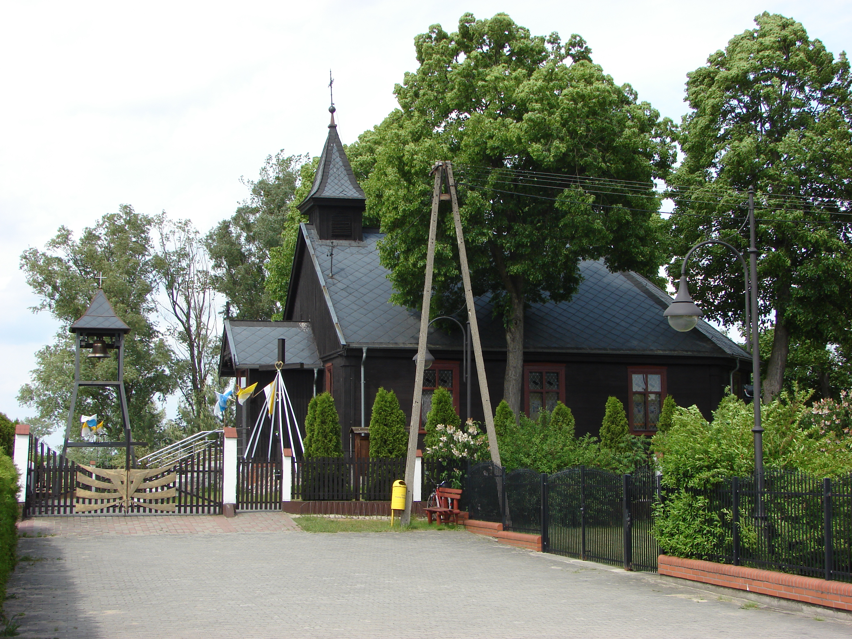 Mała Nieszawka, Toruń County. Post Mennonit church